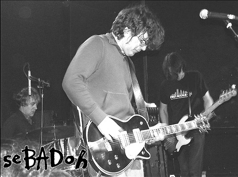 Sebadoh @ Pearl St., Northampton, MA